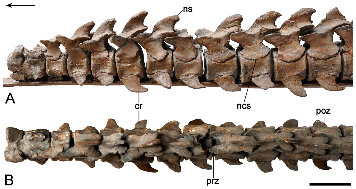 Figure 15: Brancasaurus brancai, GPMM A3.B4 (holotype), cranial cervical series. (A) lateral, and (B) dorsal views. Scale bar = 30 mm. The arrow points towards cranial. Abbreviations: cr, cervical rib; ncs, neurocentral suture; ns, neural spine; poz, postzygapophysis; prz, prezygapophysis.